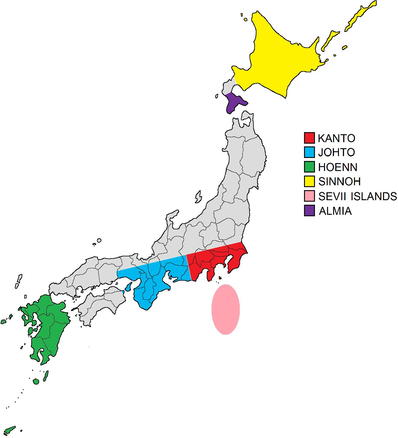 Map of Japan showing some regions where the Pokémon Regions are based